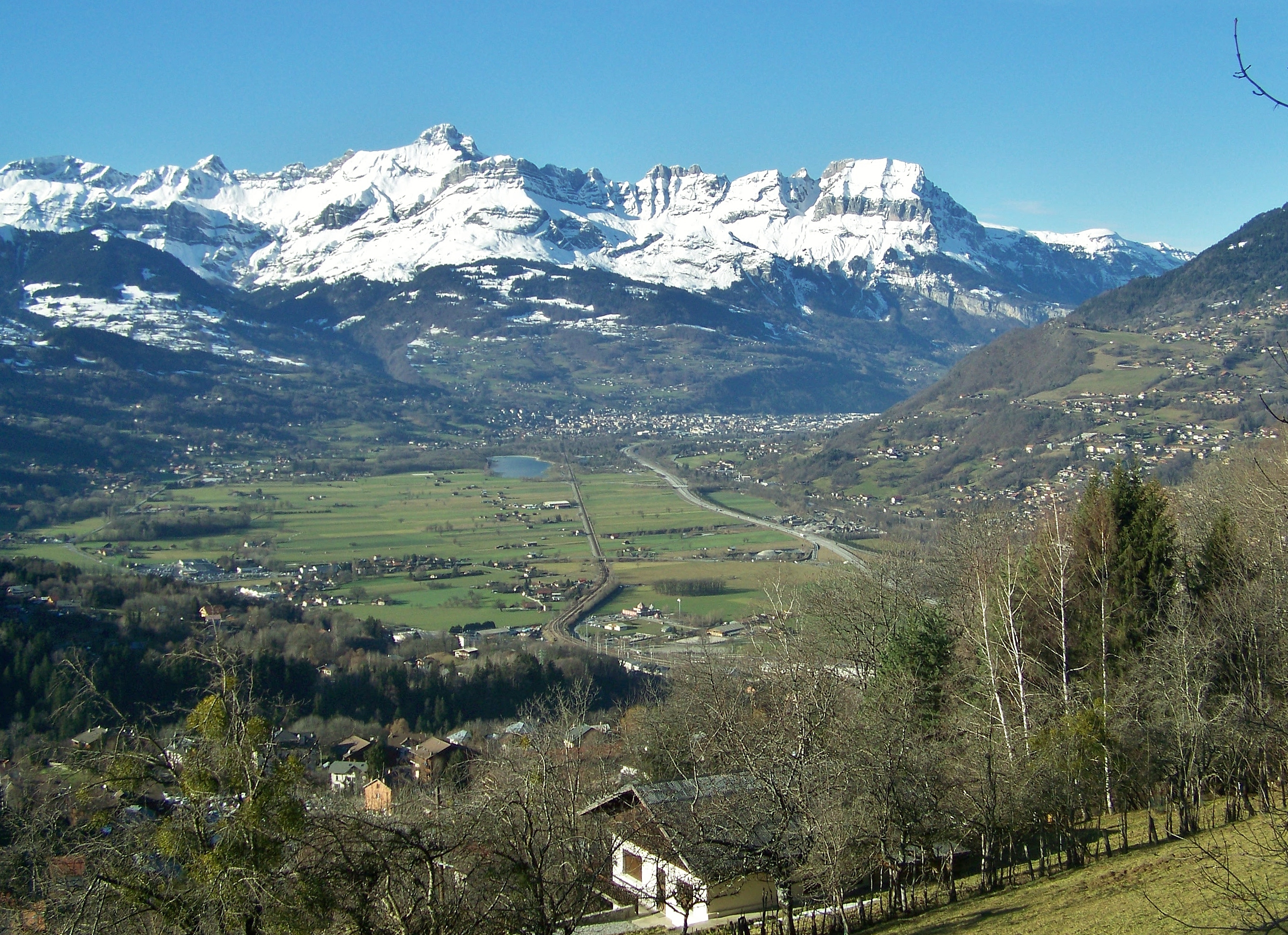 Landscape of the vallée de l'Arve valley and the city of Sallanches in the background, from the heights of Saint-Gervais-les-Bains, Haute-Savoie, France.